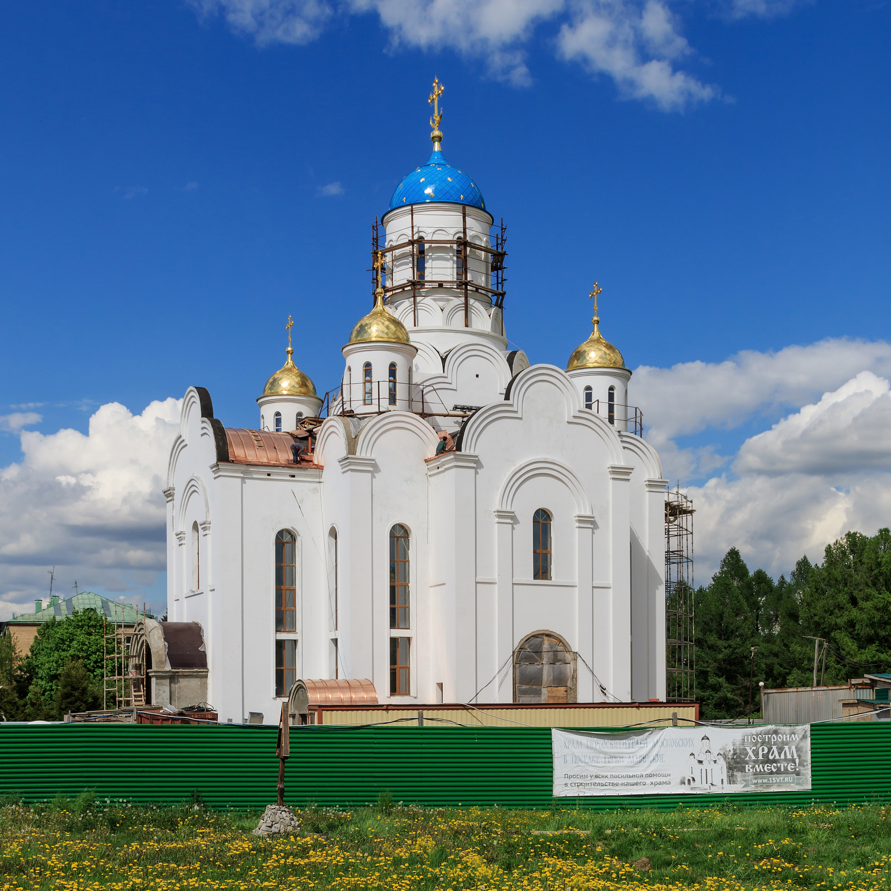 Church under construction in Gorki Leninskiye, near Domodedovo, Moscow Oblast (Russia).